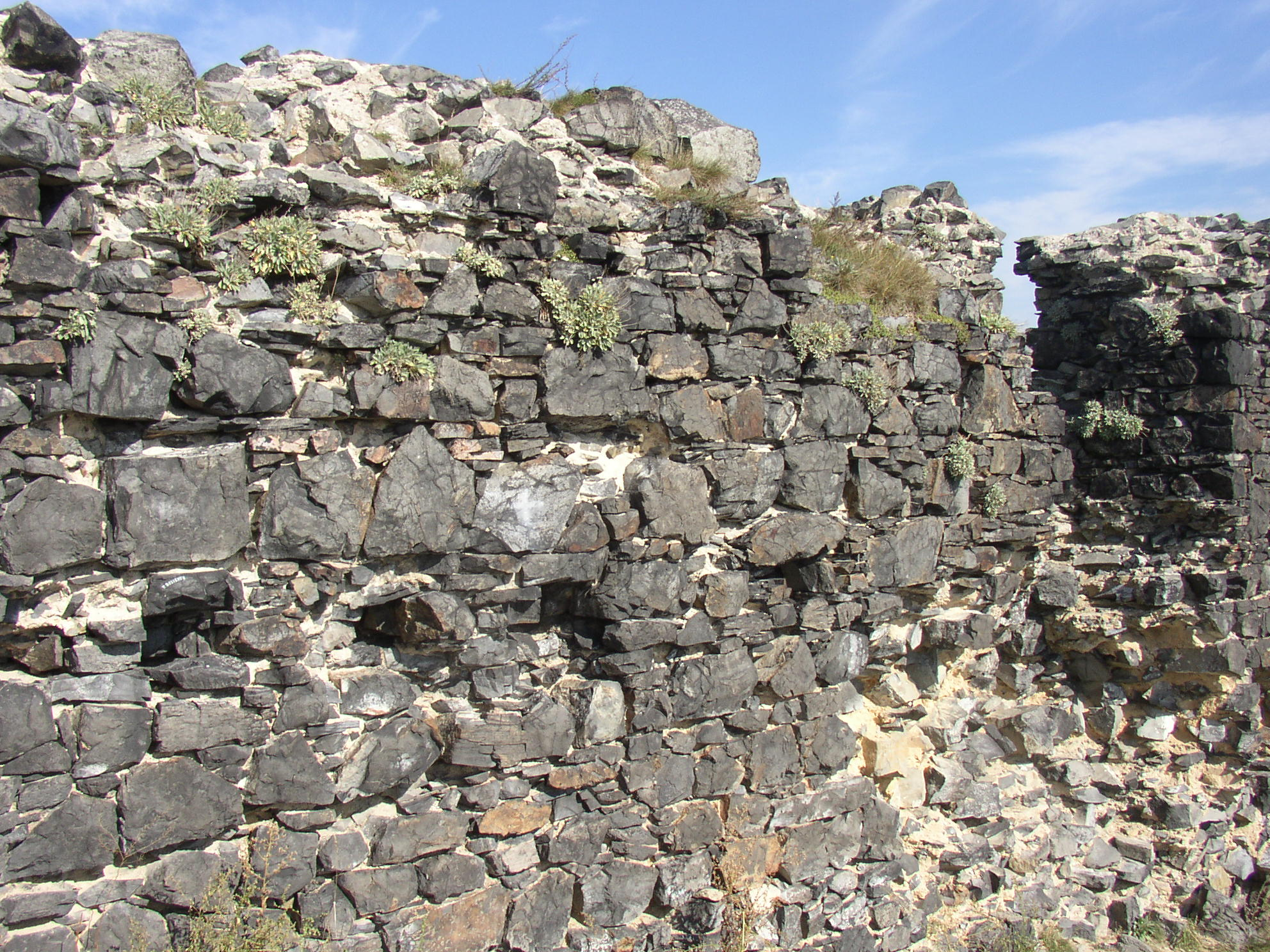 Castle ruin of Oltářík (Hrádek) in České středohoří Mts.. Interior of the tower - middle part of northern wall.